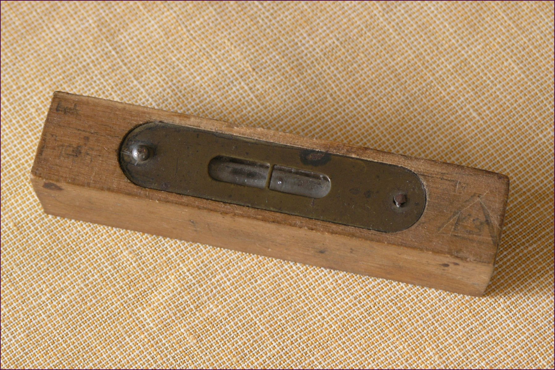 Spirit level